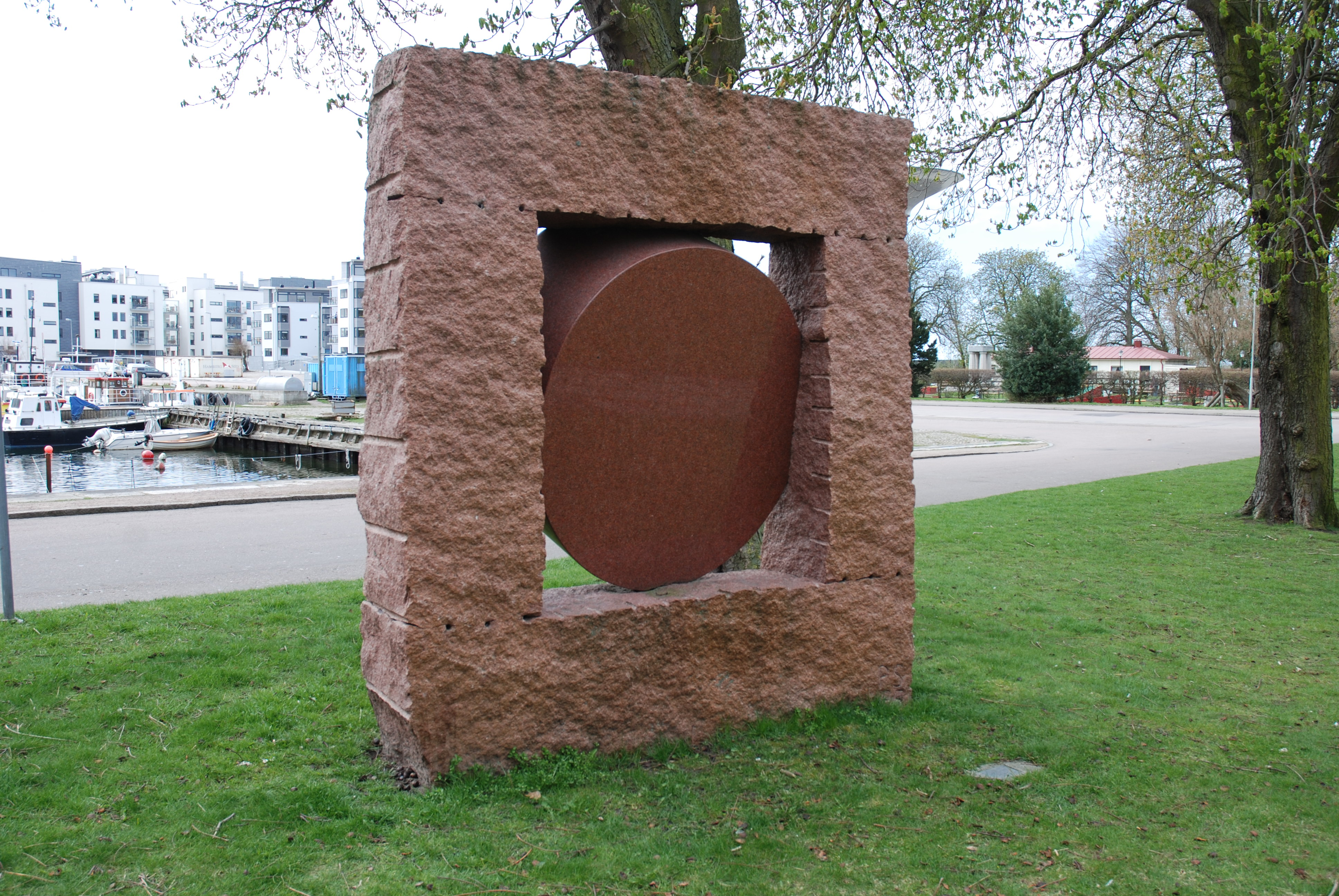 Pål Svensson´s Vattenhjul (Water wheel), granite, Landskrona, Sweden